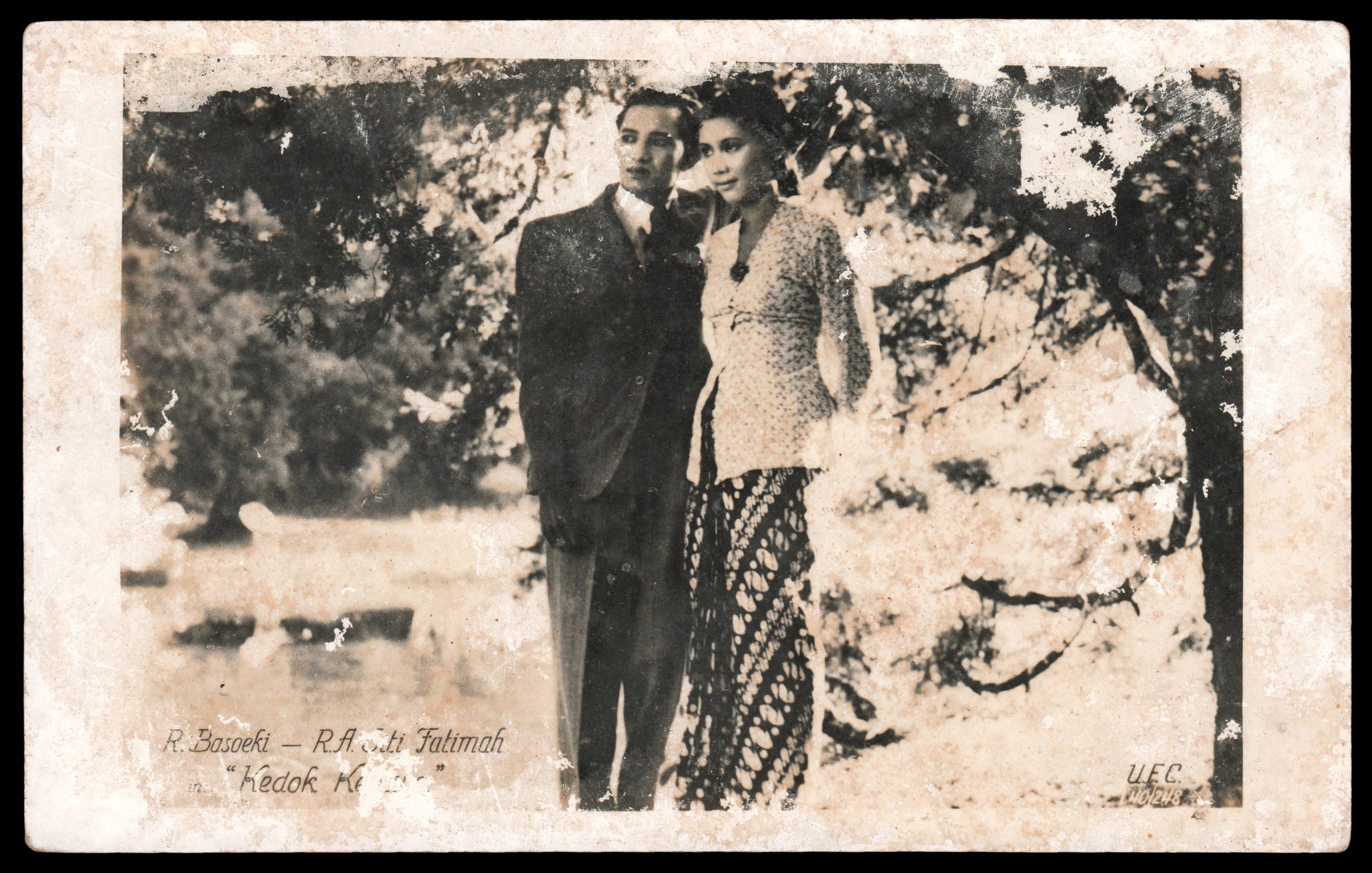 R Basoeki (i.e. Basoeki Resobowo) and Siti Fatima in Kedok Ketawa (1940), postcard